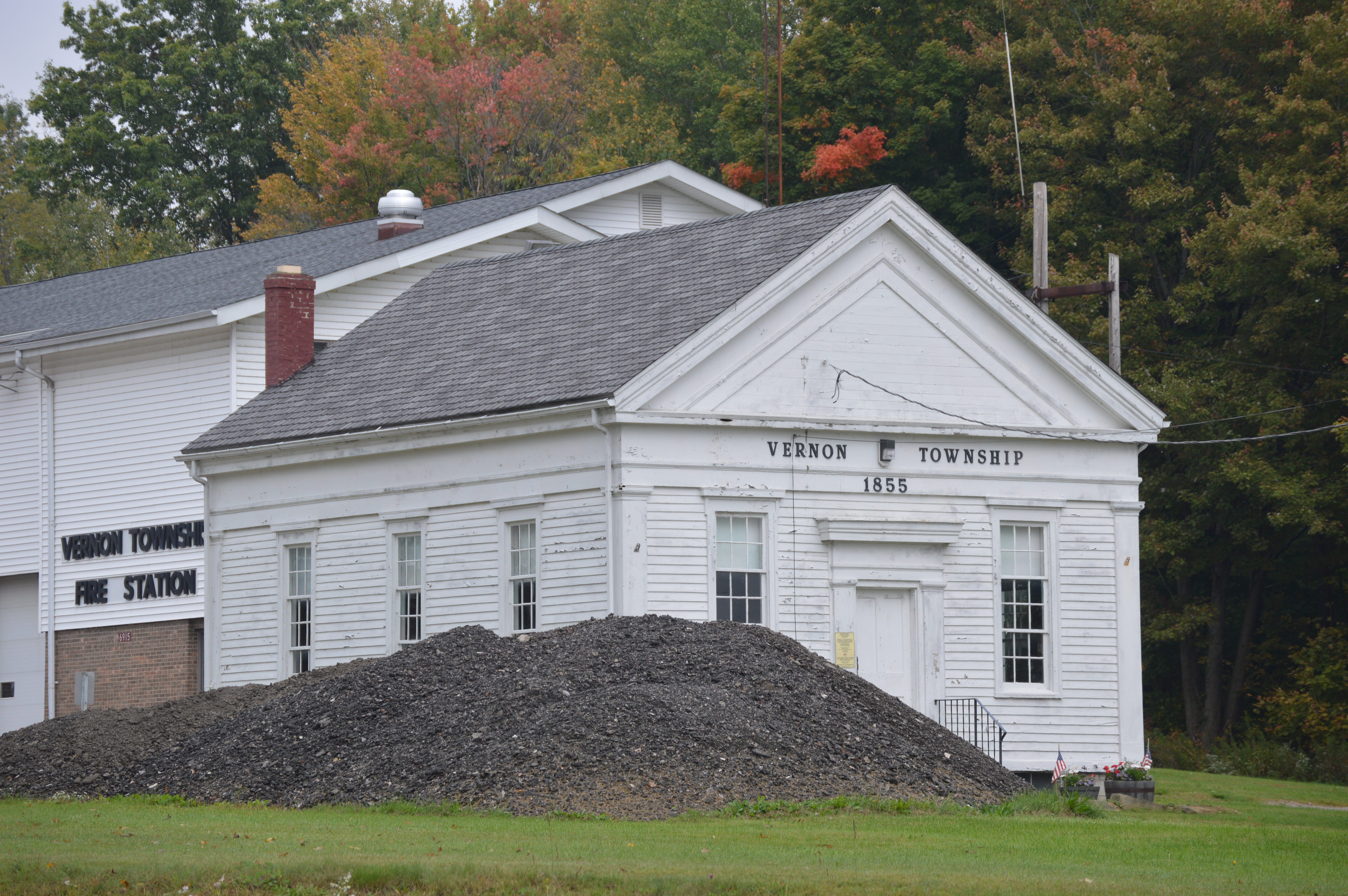 Front and southern side of the Vernon Township Hall, located on the northwestern corner of the junction of State Routes 7 and 305 at Vernon Center, Ohio, United States. It was built in 1855.